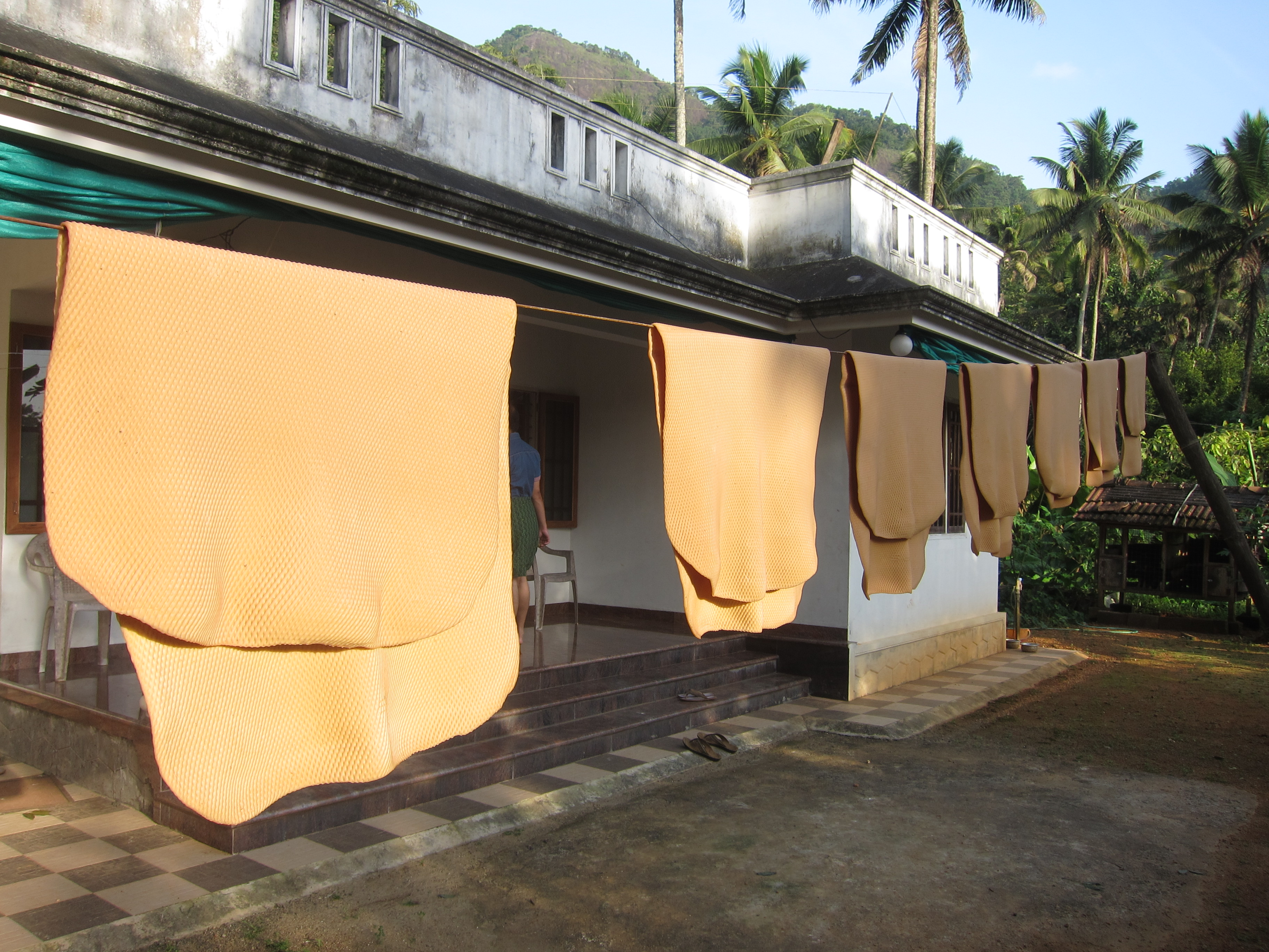 Rubber - റബർ (റബ്ബർ)